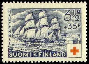 Postage stamp depicting the hemmema (from the Finnish name Hämeenmaa) class frigate Styrbjörn (commissioned 1790) of the Swedish archipelago fleet.